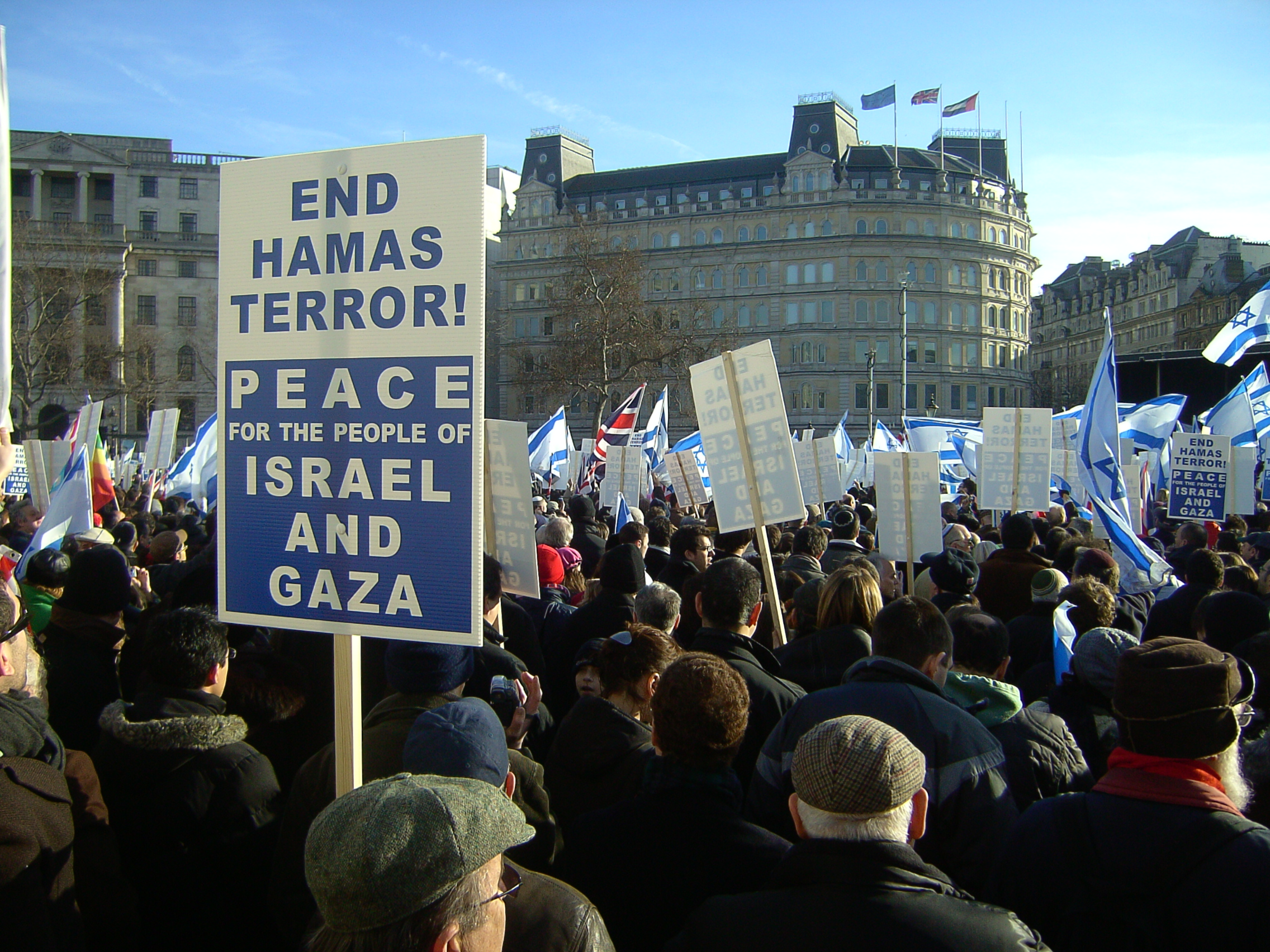 Israel peace rally, Trafalgar Square, London